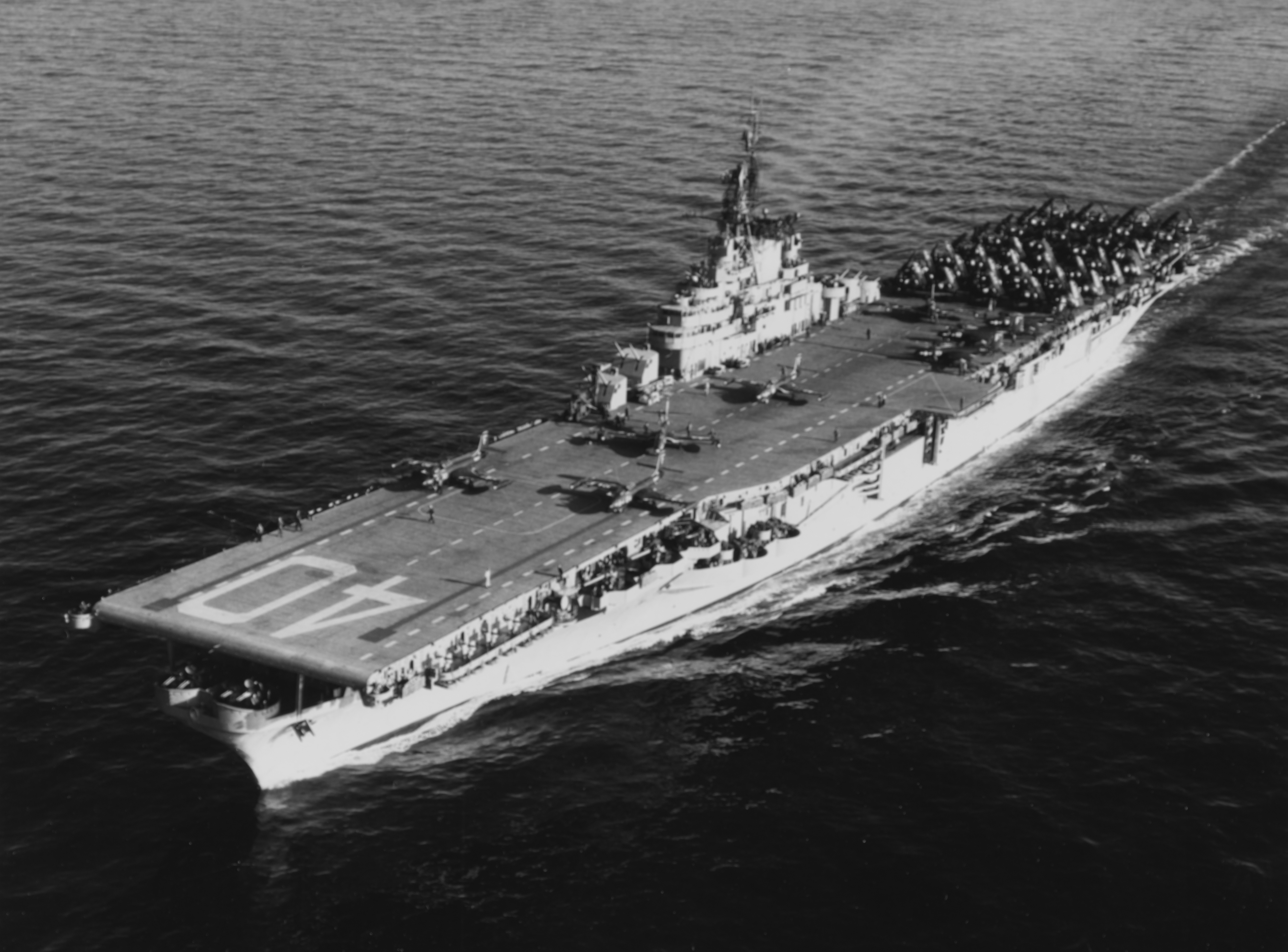 The U.S. Navy aircraft carrier USS Tarawa (CVA-40) underway at sea on 18 December 1952. Note: the official description reads "... underway in the Mediterranea Sea, north of the Straits of Messina, Sicily, on 18 December 1952. She has F2H Banshee jet fighters on her catapults." However, this cannot be correct as Tarawa returned from the Mediterranean Sea to the U.S. on 11 June 1952 and left again on 7 January 1953. On neither deployment she carried F2H-2 Banshee fighters. Fighter Squadron 62 (VF-62) flew F2H-2 with the tail code "F" (as shown here). This was the tail code of Carrier Air Group 4 which was deployed to the Mediterranean Sea aboard USS Coral Sea (CVB-43), 19 April to 12 October 1952, and USS Lake Champlain (CVA-39), 26 April to 4 December 1953. Assuming that the date is correct, the carrier was working up for her coming deployment off the U.S. East Coast.